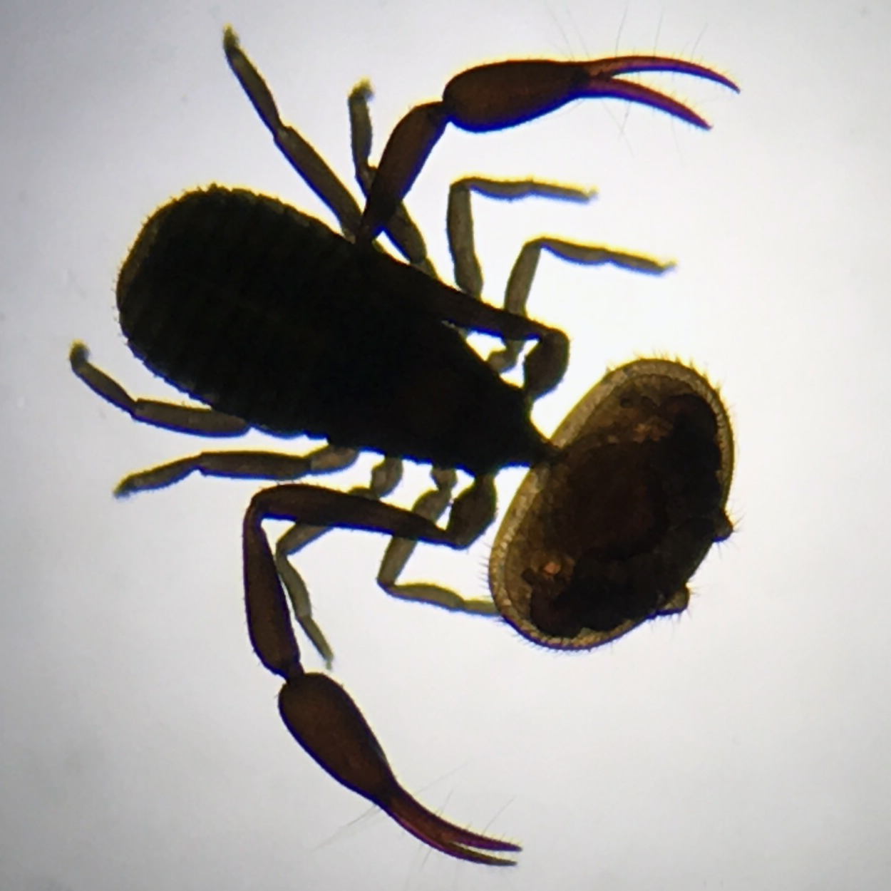 Bookscorpion (Chelifer Cancroides) with killed varroa mite